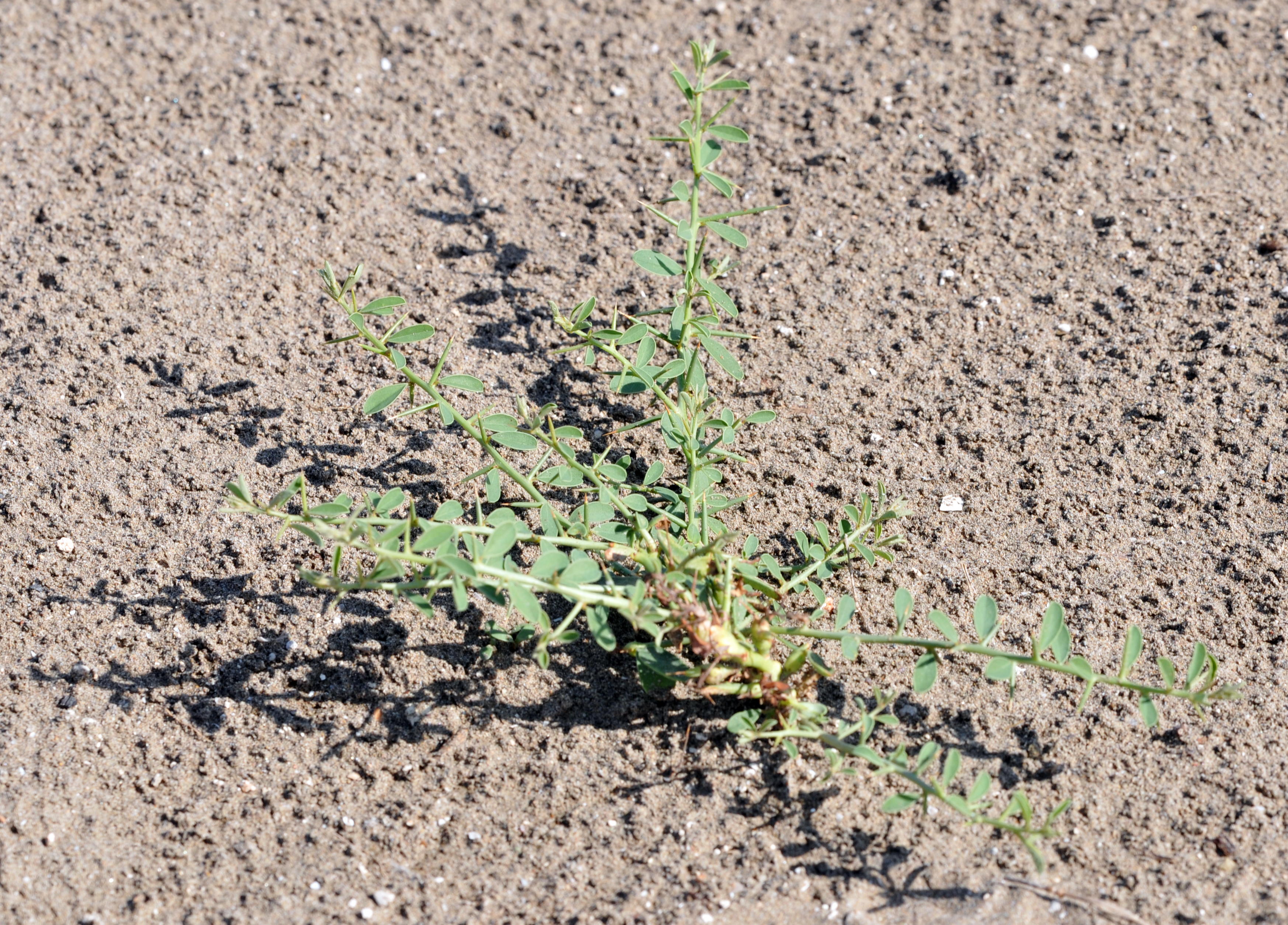 A young camelthorn bush (Alhagi maurorum). Karataş, Adana - Turkey.